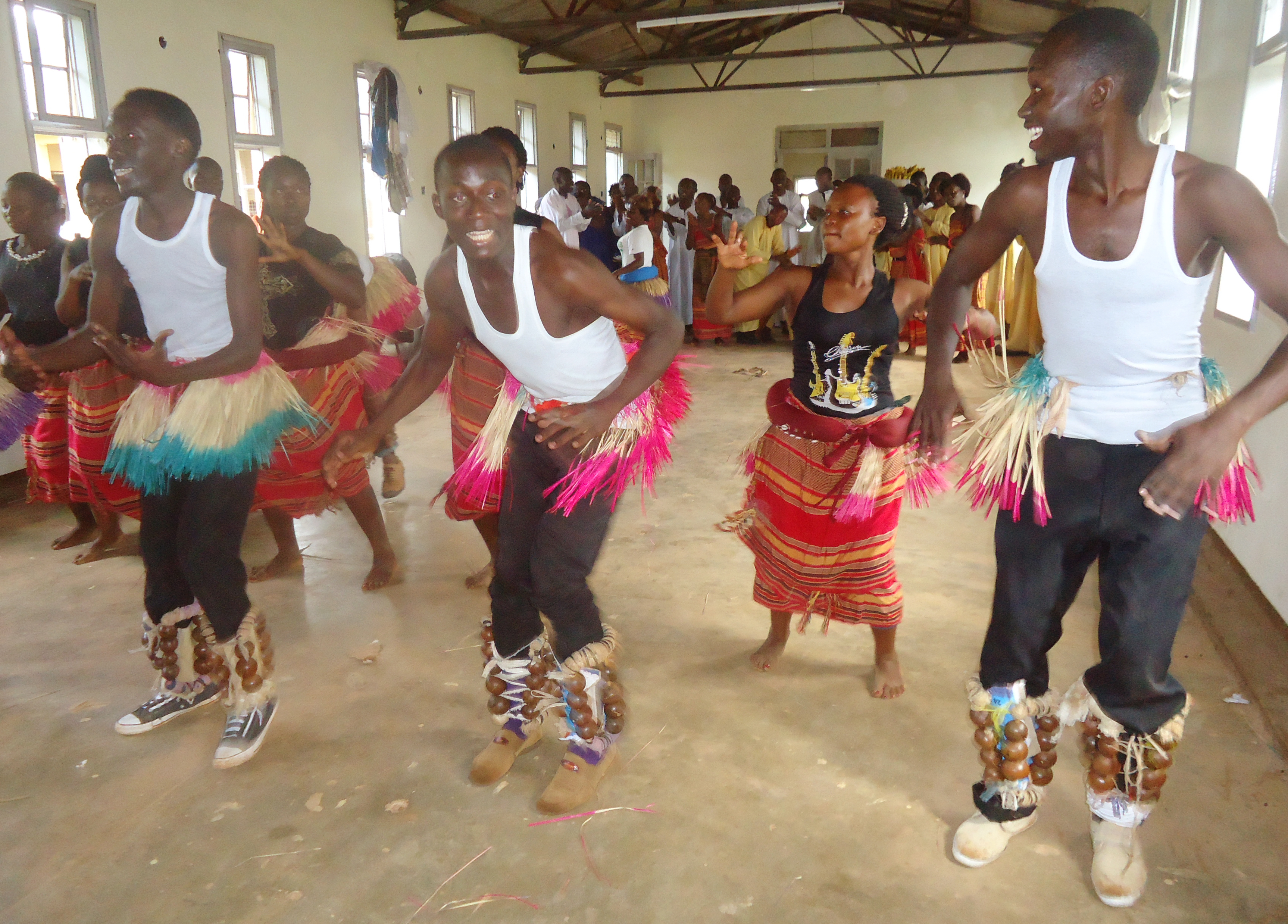 Bunyoro kitara dancers performing on stage This is an image of Cultural Fashion or Adornment from Uganda